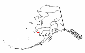 Adapted from Wikipedia's AK borough maps by Seth Ilys.